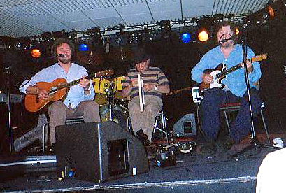 Chas and Dave, Lemon Tree 15th May 2003